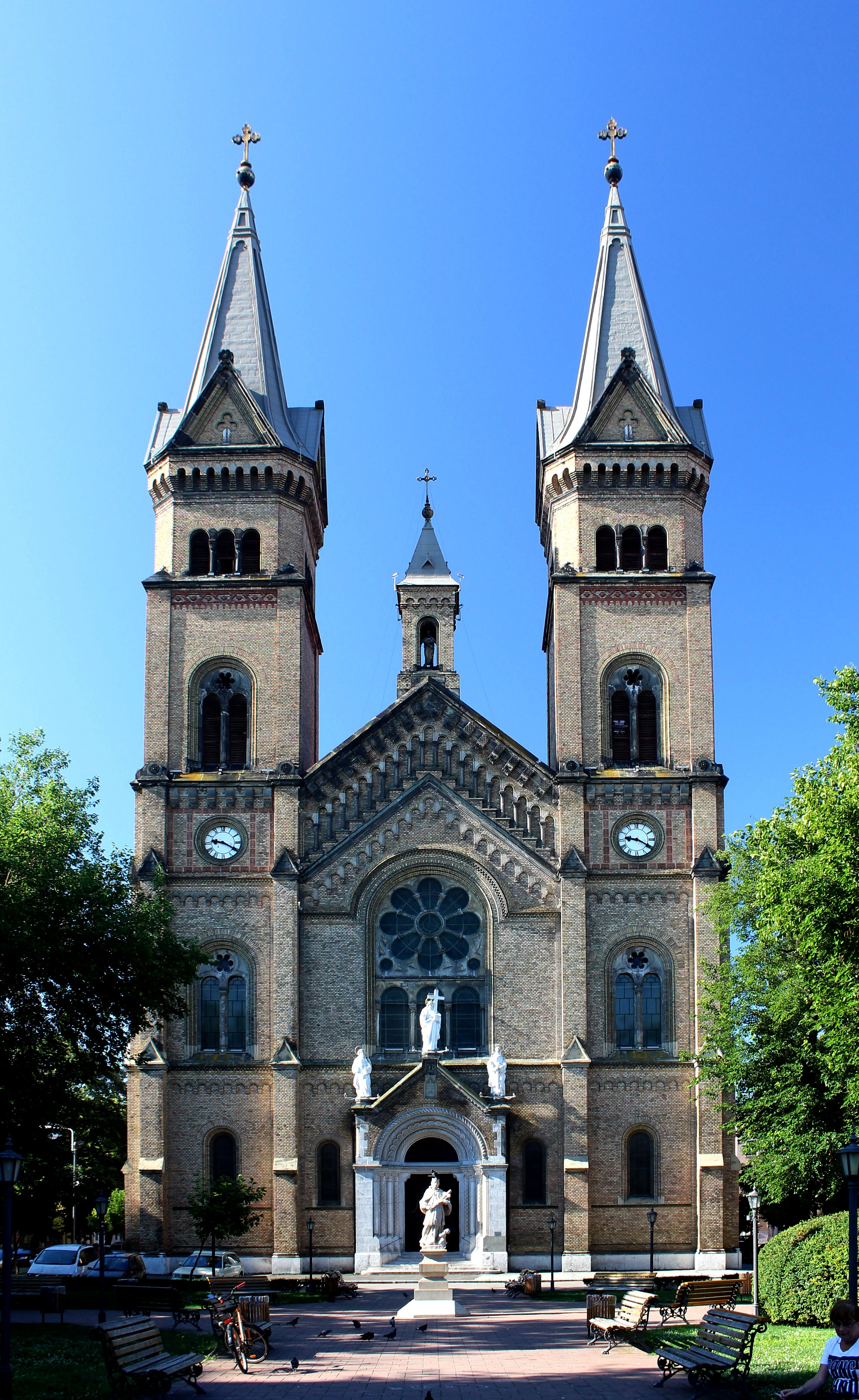 Millennium Church in 2018, Timișoara, Romania